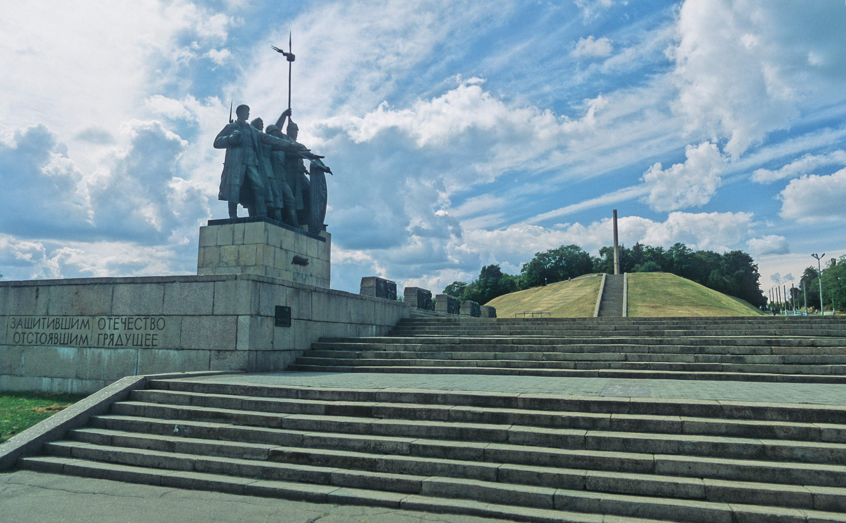 WW2 monument situated in Chernigov, Ukraine